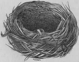 Saddle-back (Philesturnus carunculatus) nest.